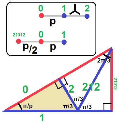 Rank 3 Coxeter group and index 3 subgroup relation